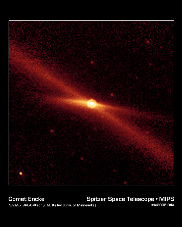 from "medium resolution" option at using the NASA Spitzer Space Telescope. Caption from URL states in part "…the comet Encke riding along its pebbly trail of debris (long diagonal line) between the orbits of Mars and Jupiter. ... Twin jets of material can also be seen shooting away from the comet in the short, fan-shaped emission, spreading horizontally from the comet." Object Name: Comet Encke Distance: 2.0 AU from Spitzer (at time of observation) Image Credit: NASA/JPL-Caltech/M. Kelley (Univ. of Minnesota) Instrument: MIPS Exposure Date: 2004-06-23 Exposure Time: 130 seconds Release Date: 11 January 2005